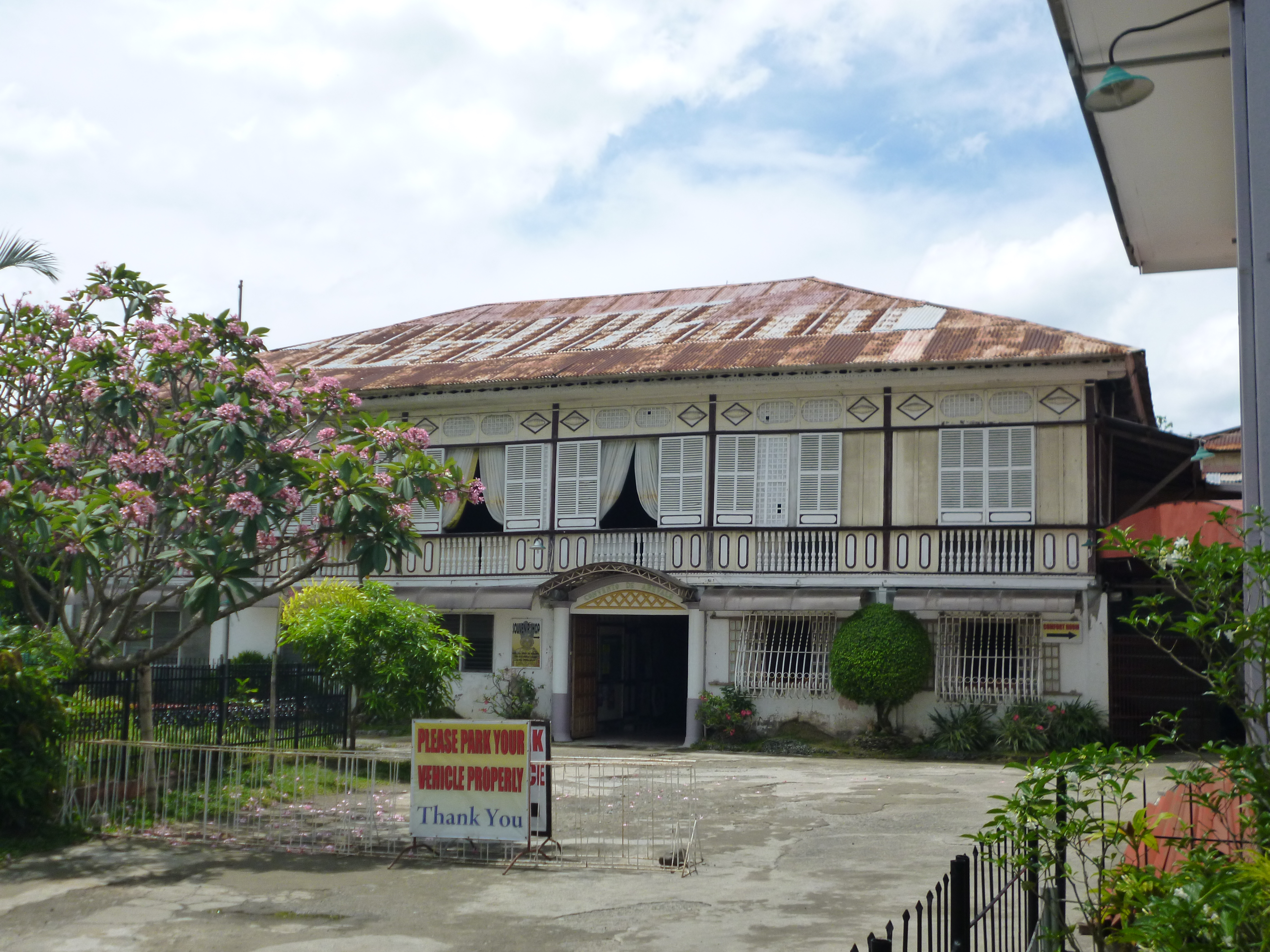 Convent, otherwise known as a rectory, of the Santo Niño de Arevalo Parish, Villa de Arevalo, Iloilo City